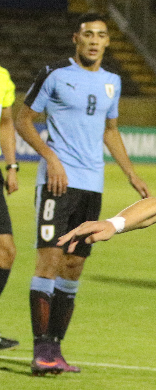 URUGUAY vs VENEZUELA SUB 20